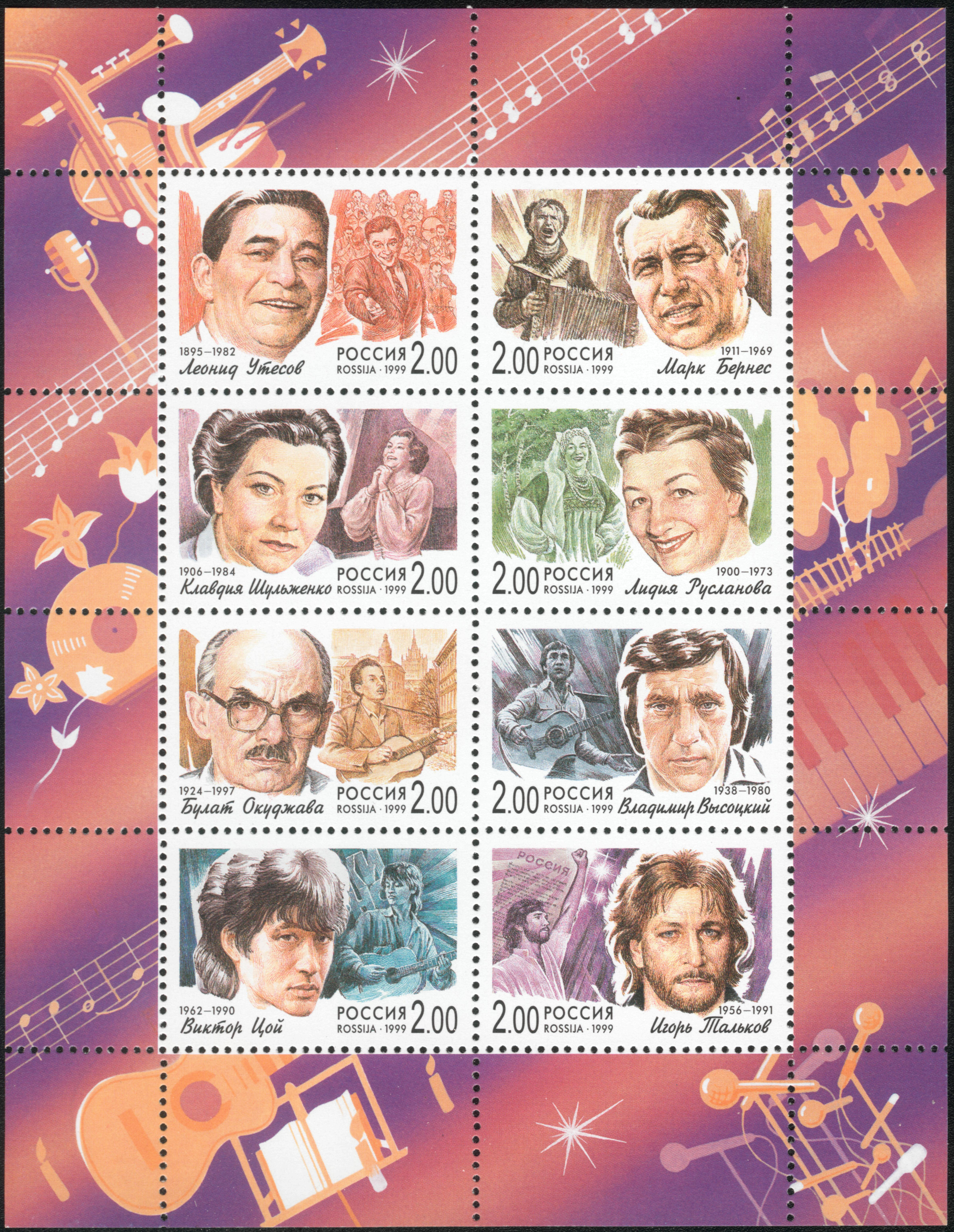 Stamps of Russia Popular singers of the Russian stage, 1999